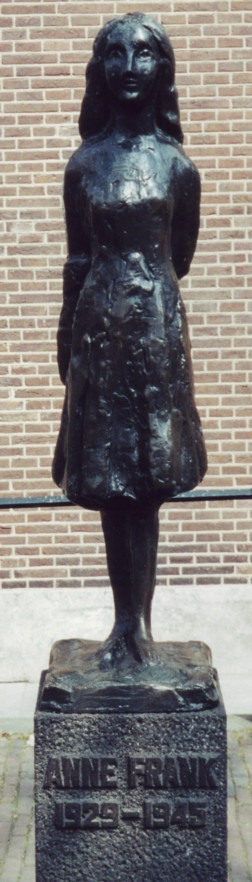 Statue of Anne Frank outside Westerkerk, Amsterdam